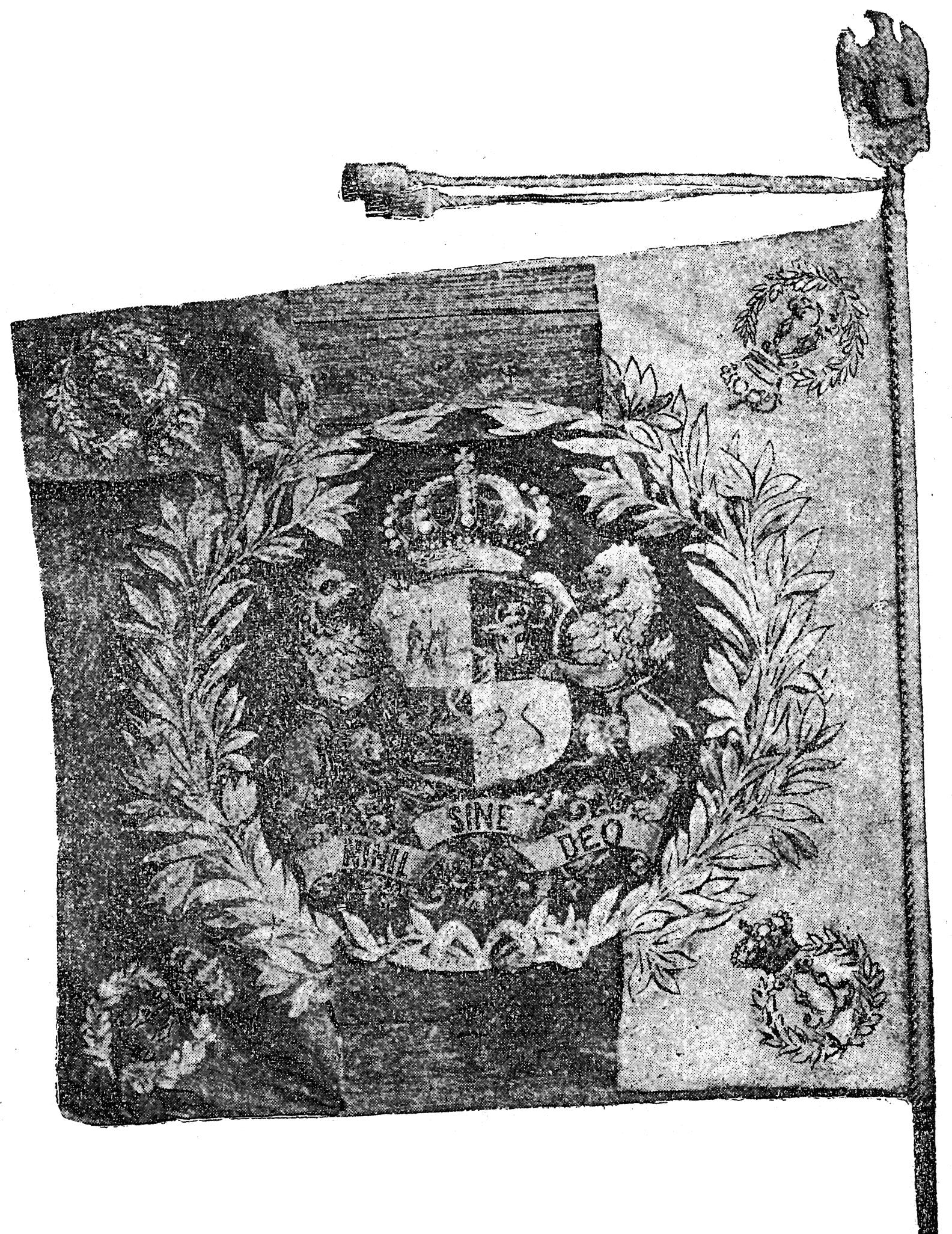 Flag of the Romanian Army, 1882 model